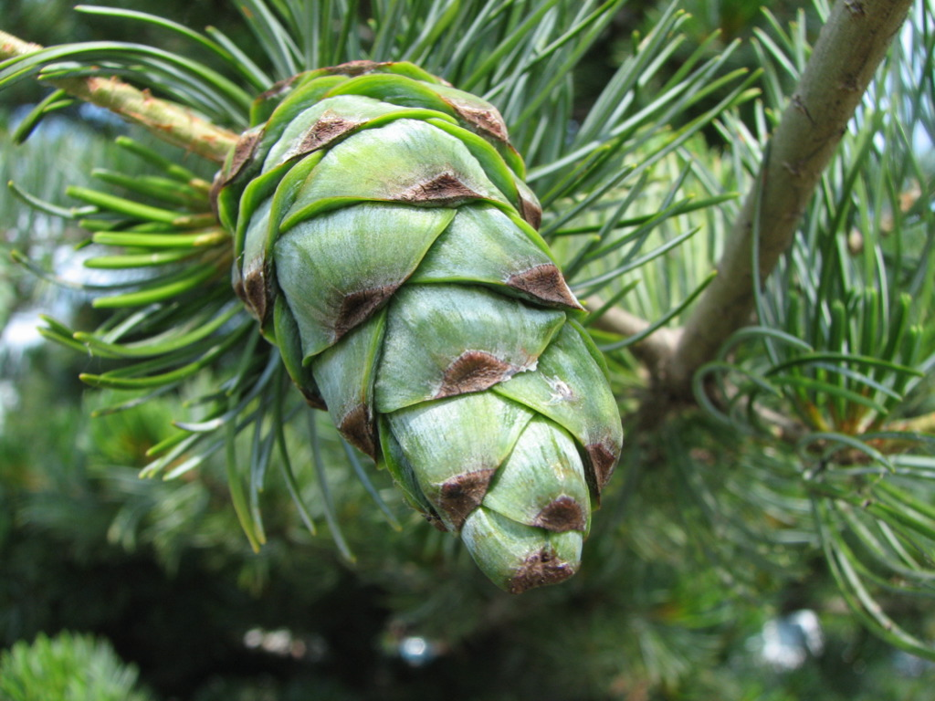 Pinus parvifloracone